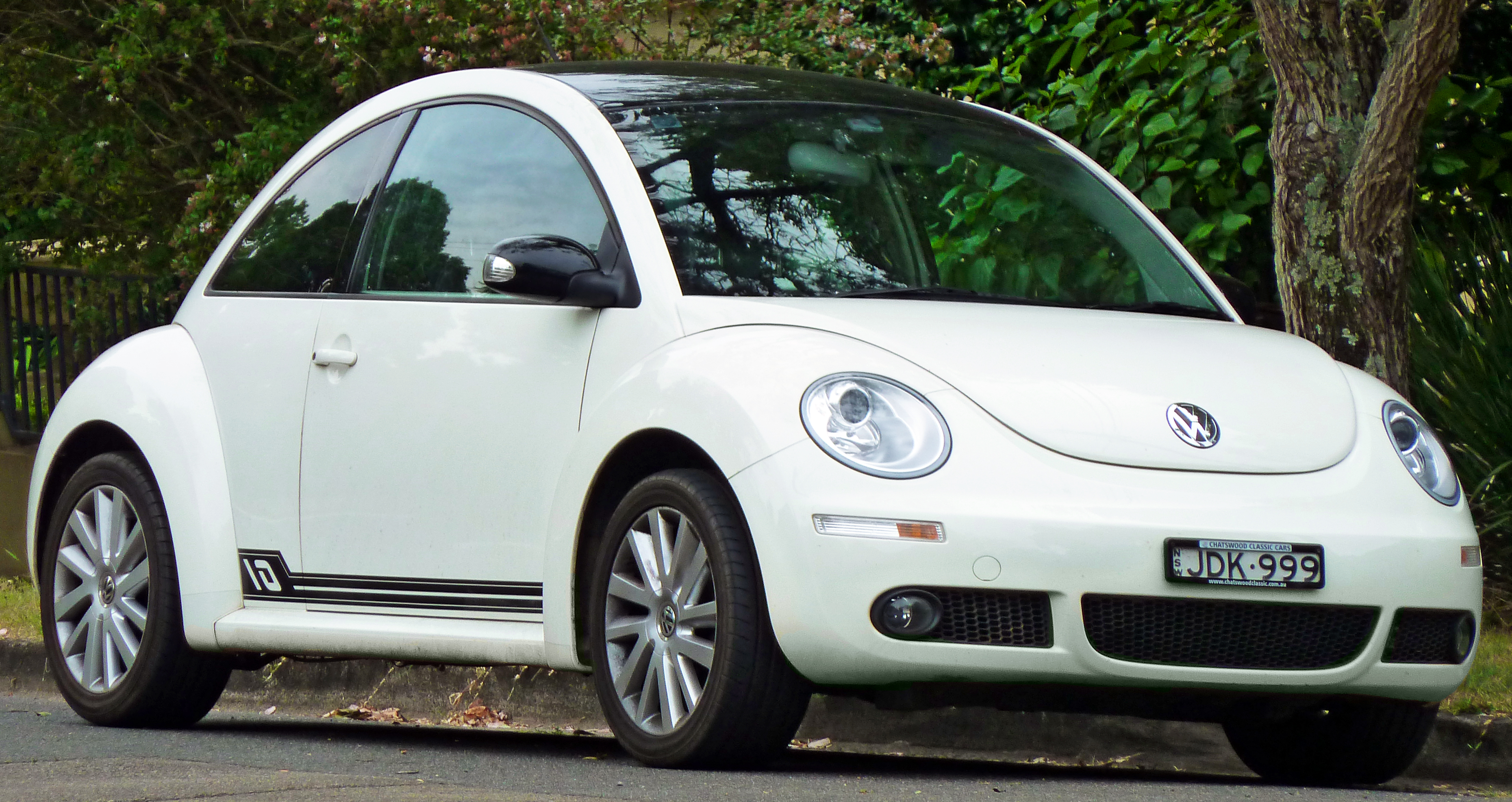 2008 Volkswagen New Beetle (9C MY08) Anniversary Edition coupe. Photographed in Lindfield, New South Wales, Australia.